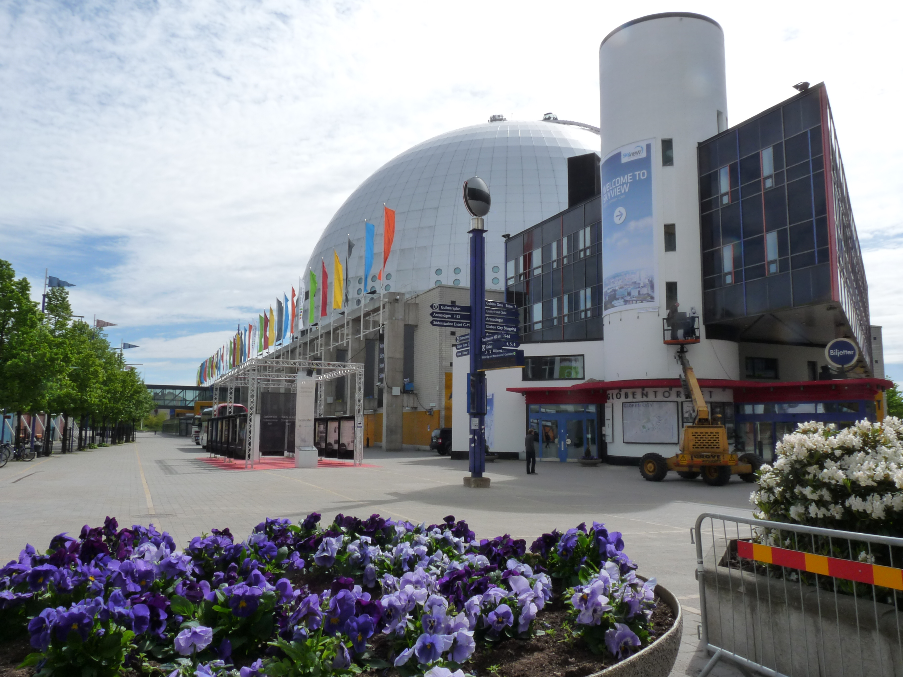 Street near Globen square